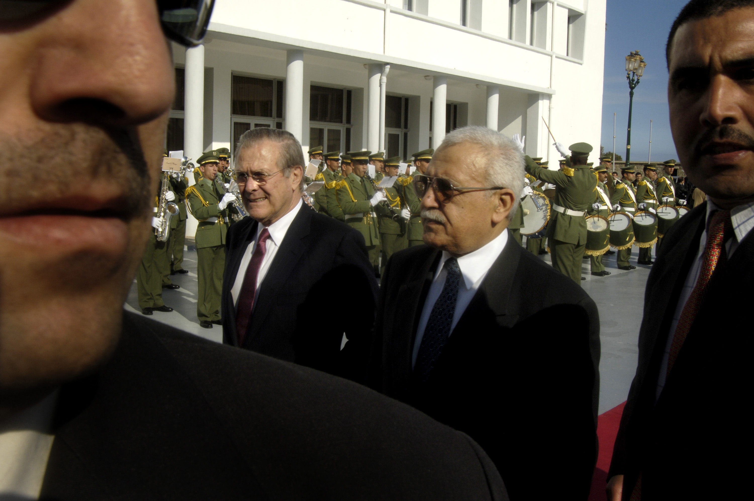 Algerian Minister of Defense Abdelmalek Guenaizia (2nd from right) welcomes Secretary of Defense Donald H. Rumsfeld with full military honors in Algiers, Algeria on Feb. 12, 2006. Rumsfeld met with delegations from the Mediterranean Dialogue countries of Algeria, Egypt, Israel, Jordan, Mauritania, Morocco and Tunisia earlier at the NATO Ministerial in Taormina, Sicily. Rumsfeld will meet with Guenaizia and other senior leaders in Algiers to continue those talks and discuss regional security issues.